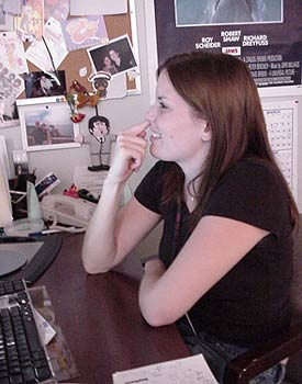 Author: Harman Smith. This is an image of one of Harman's coworkers in a not-so-candid moment during which she had inserted a finger in her nose. Nose picking is not usually against company policy, but it is frowned upon by the management of large corporations.